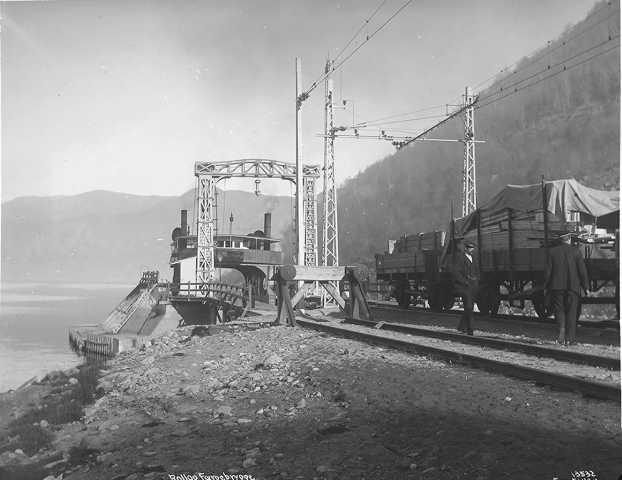 Railway ferry D/F Rjukanfoss loading supplies at Rollag, Norway.